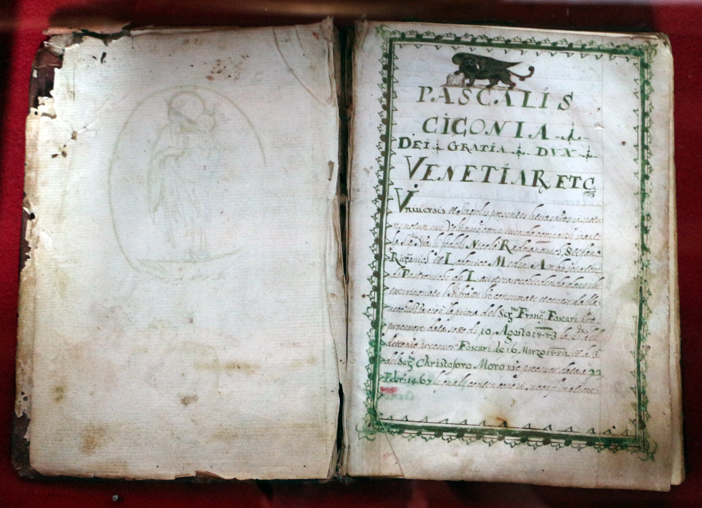 Museum in Perast